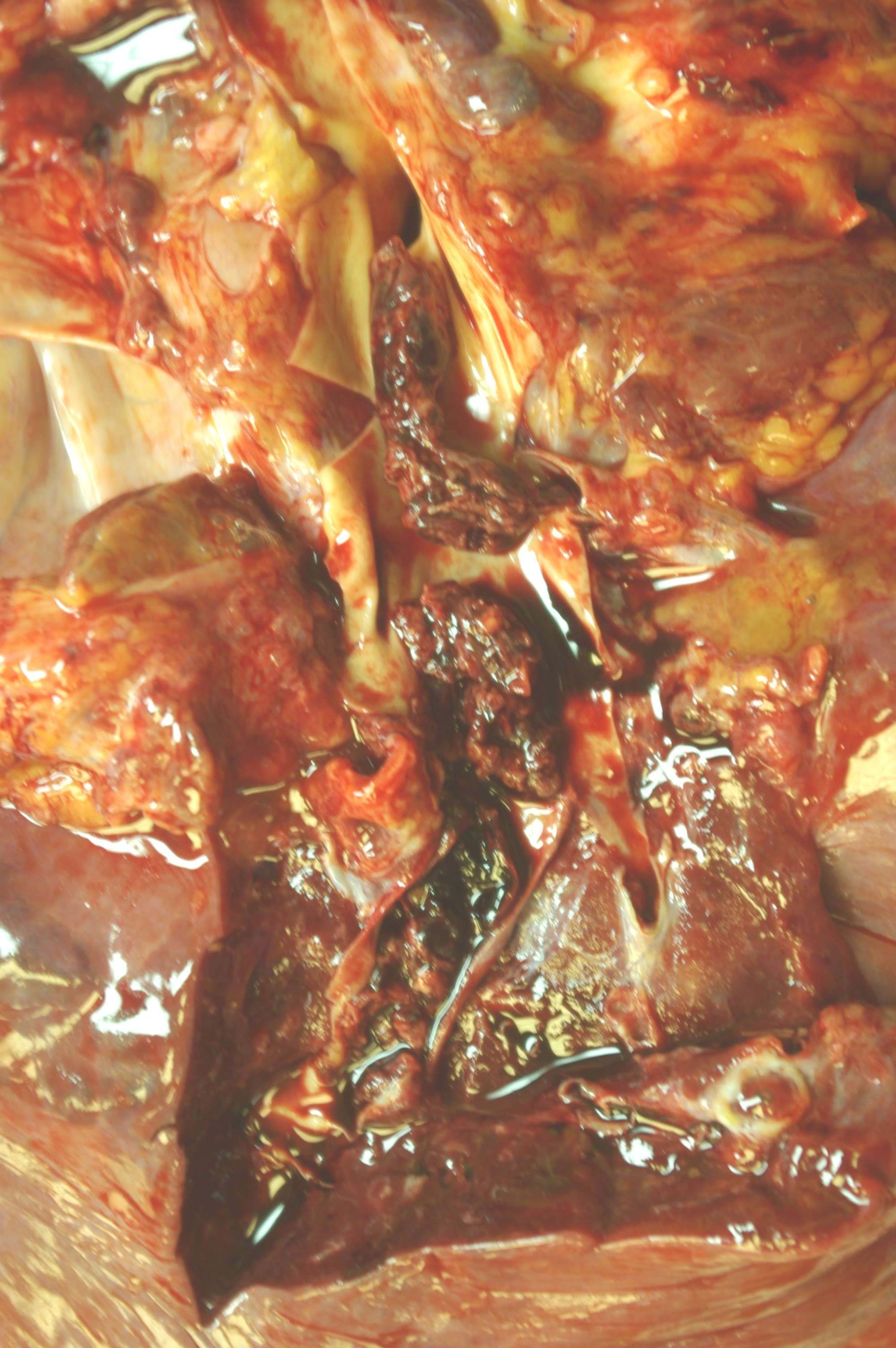 Pulmonary embolus found on autopsy